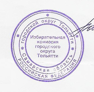 The state seal of documents for the city electoral Commission of the city of Tolyatti